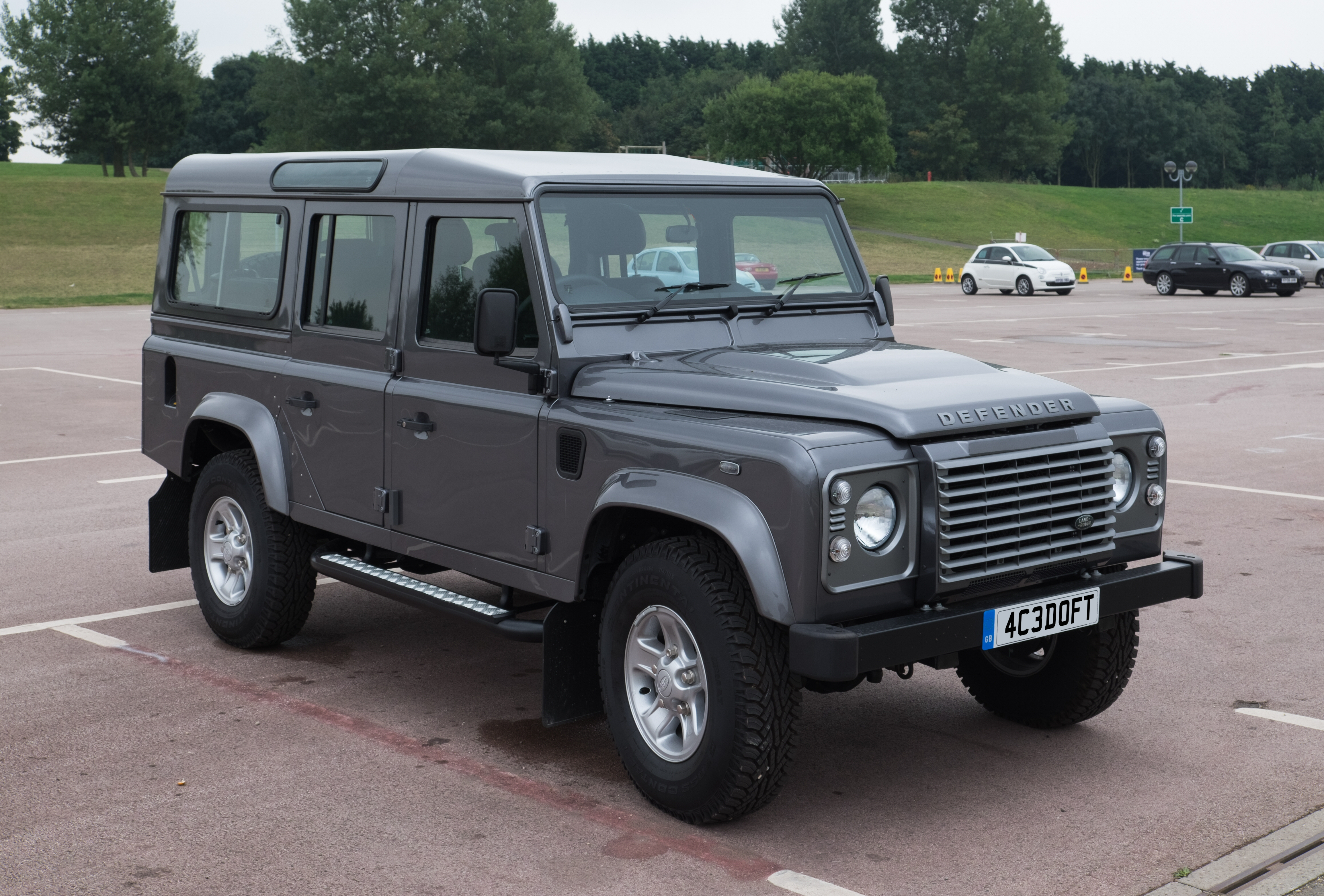 A 2016 Land Rover Defender 110 Station Wagon